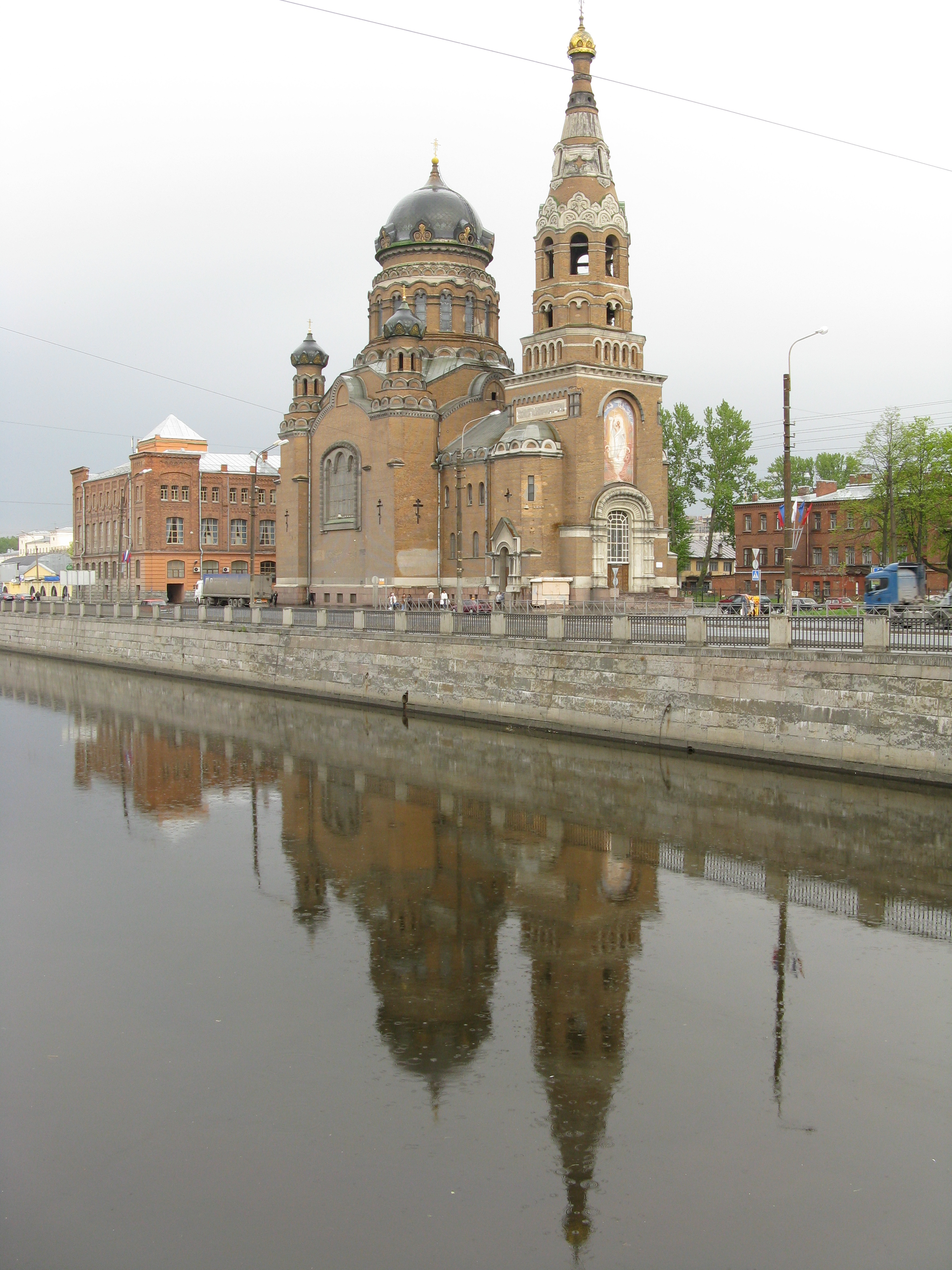 Church of Resurrection of Christ, near Warsaw Rail Terminal